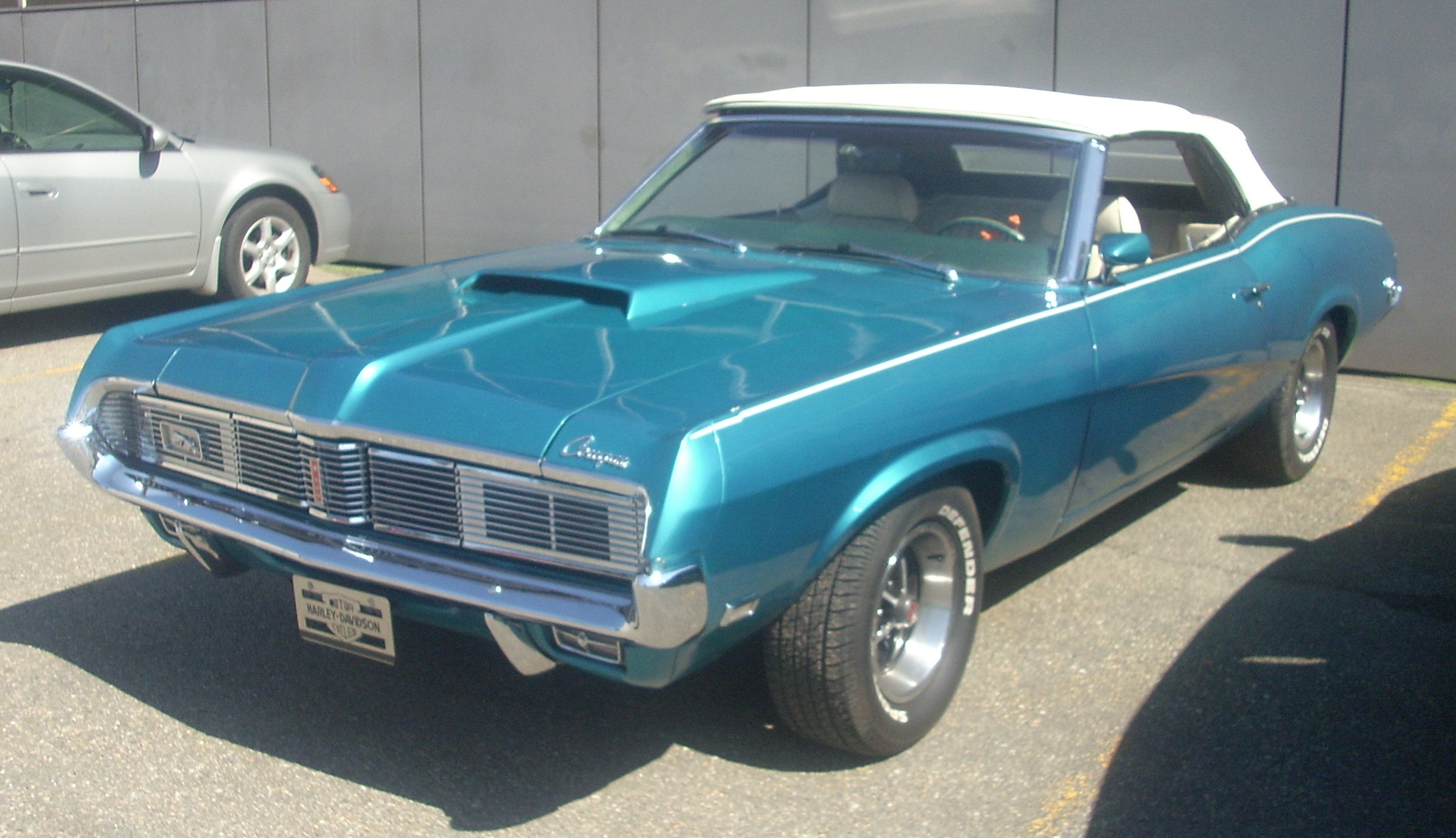 1969 Mercury Cougar photographed in Pointe Claire, Quebec, Canada.